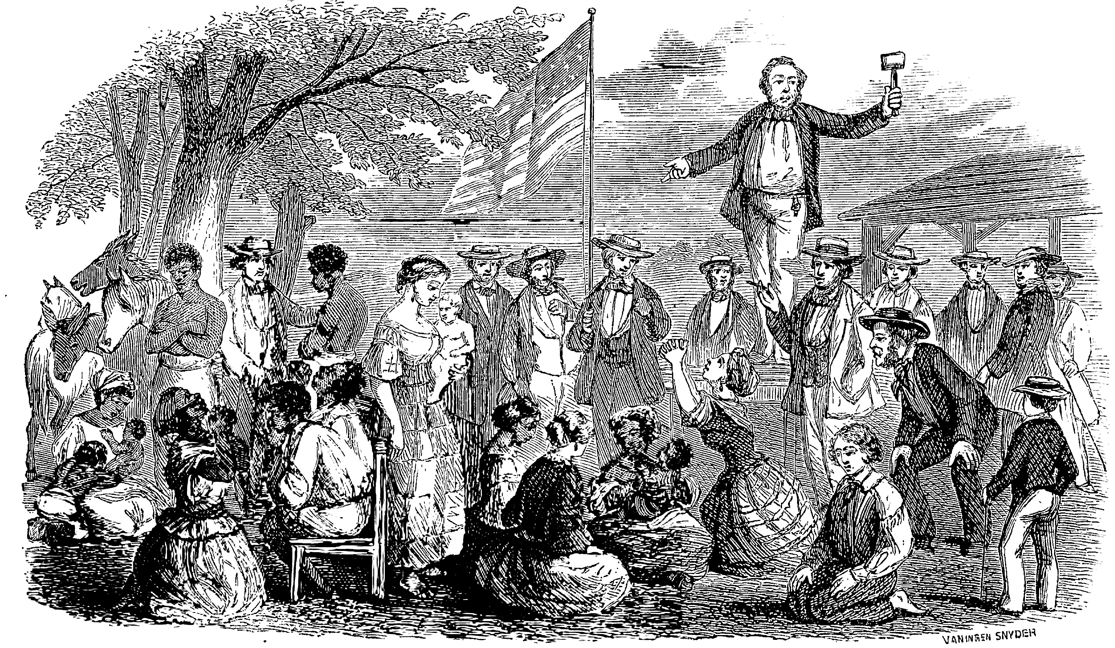 A slave auction, out of doors. The white auctioneer stands on a stage holding a gavel; with his other hand he points at a group of black slaves. A large American flag flies in the center of the picture.